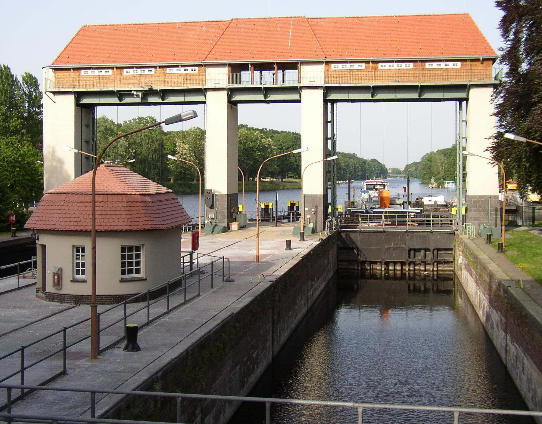 Canal lock in Kleinmachnow in Brandenburg, Germany